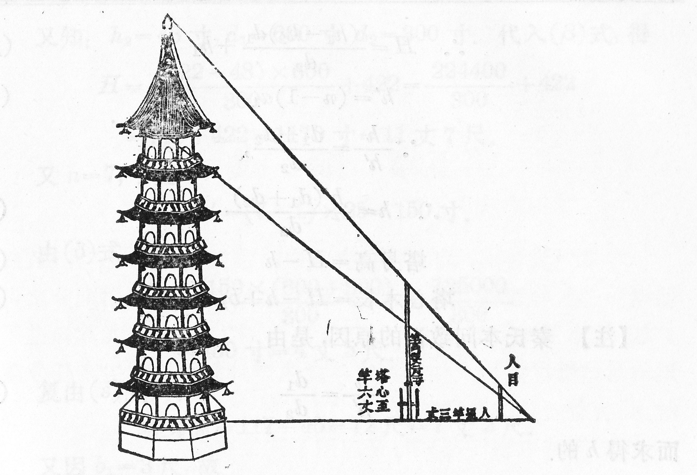 Qin Jiushao diagram for Observing pagaoda